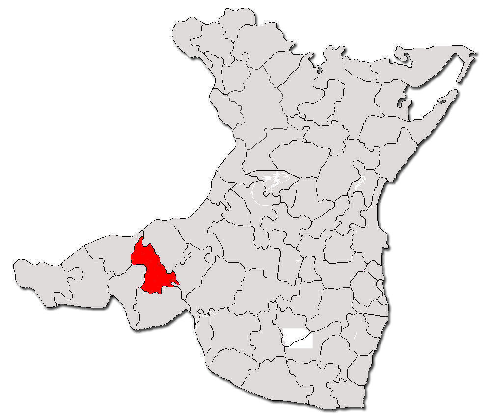 Contour map of Ion Corvin commune